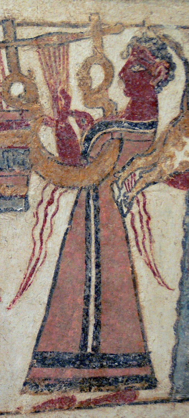 Archaeological Museum of Herakleion. Sarcophagus of Agia Triada ( 1600 - 1450 B.C.) - detail: Priestess sacrificing a liquid at an altar adorned with double axes. She is followed by another woman and a lyre-player.